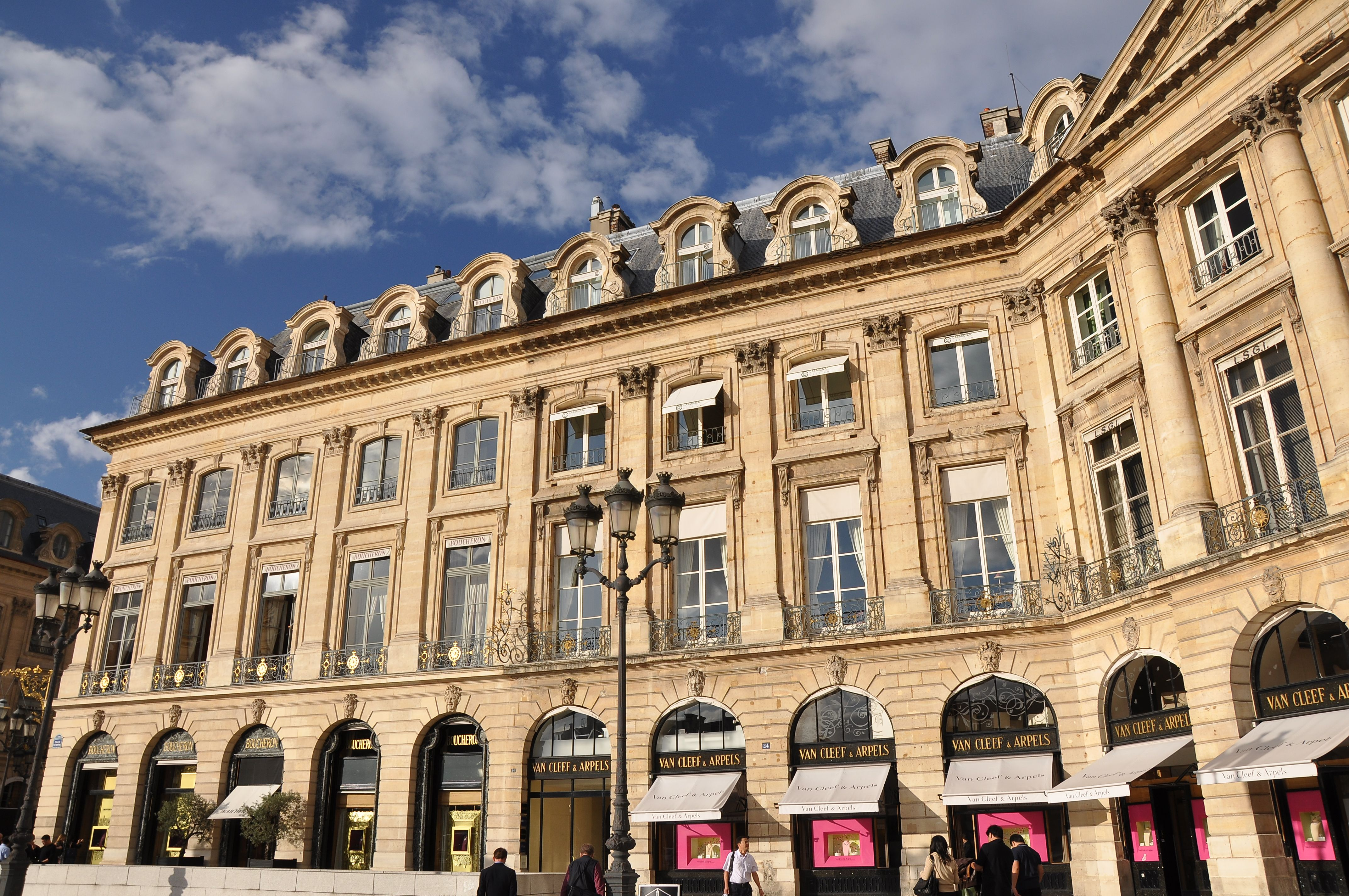 Hôtel Boffrand at 24 place Vendôme, in the 1st district of Paris, France